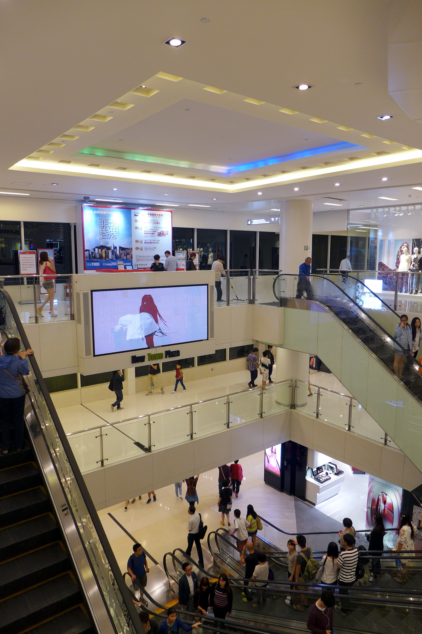 New Town Plaza Escalator Void